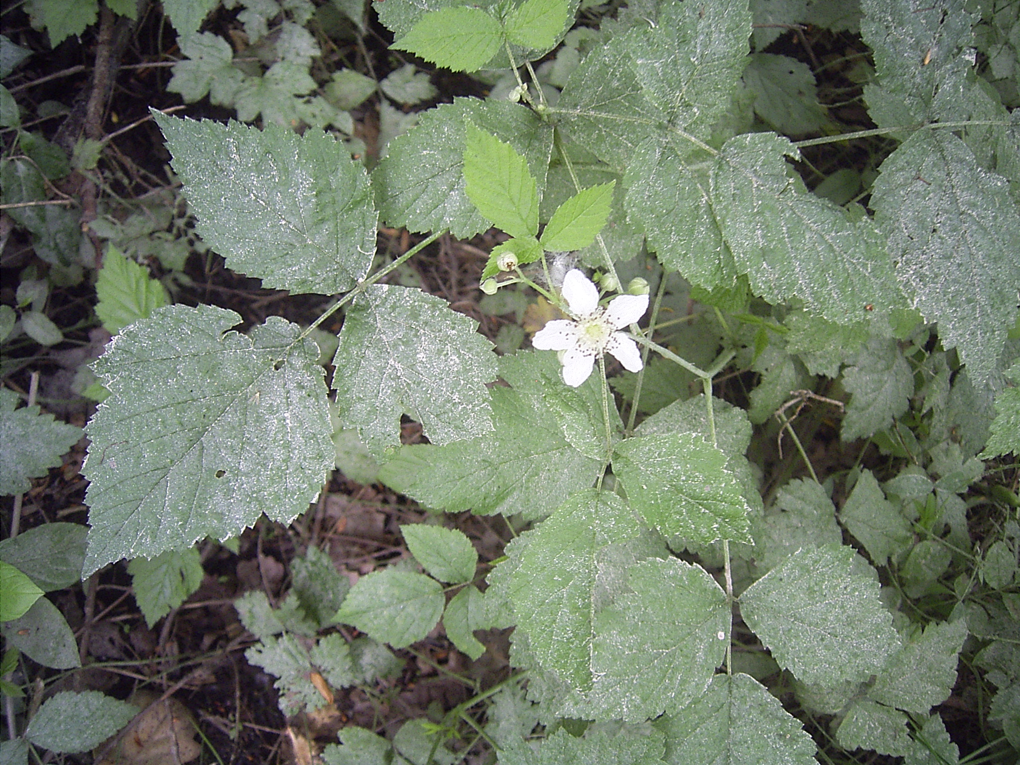 Rubus caesius, at the Danube, Vienna, Austria